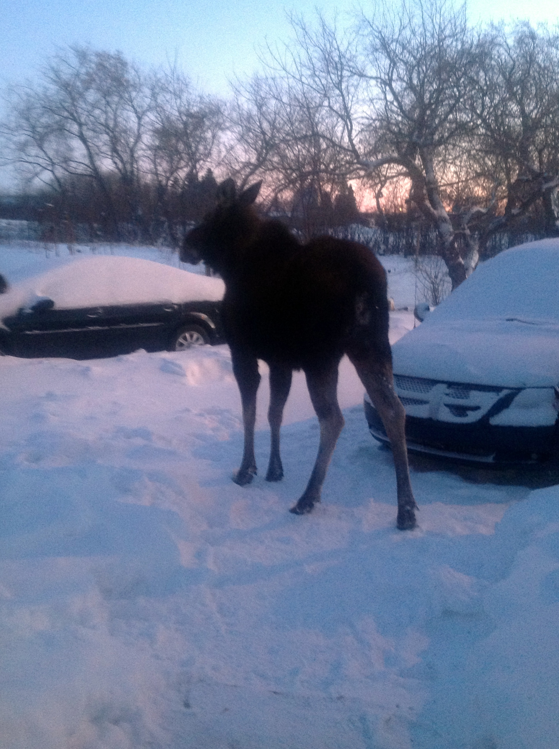 A mother moose and her 2 calves kept the residents of Rama, Saskatchewan on their toes for the winter in 2013.